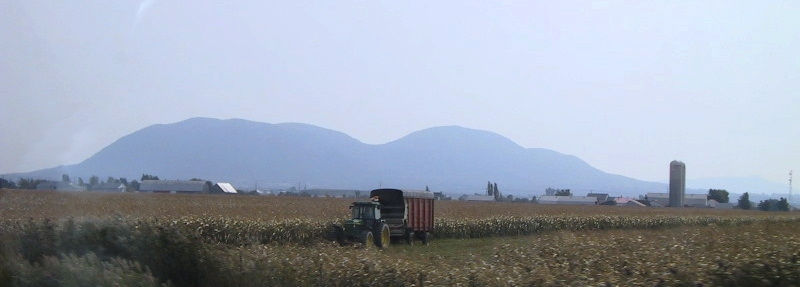 Mount Saint-Hilaire, Quebec, Canada. Taken by User:Krestavilis in October 2000